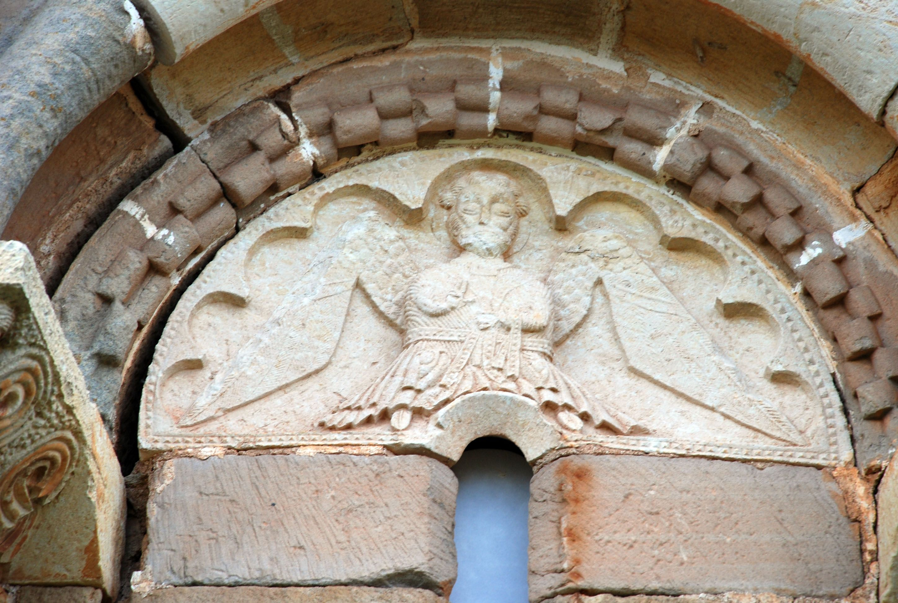 Detail of window at apse of Chapel of Santa Eulalia in the Barrio de Santa María of Aguilar de Campoo (Palencia, Castile and León). Old Parish Church of the medieval outback of the same name that the building is dedicated. It was declared A historic-artistic monument in 1966. It is one of the jewels of the Romanesque in province of Palencia. Whole, harmonic and small shapes and defines the Romanesque palentine North mountain. Its plant consists of a single nave closed in semicircular apse. Its cover closes to the North, not usual in these buildings since the coldest wind coming from that direction.